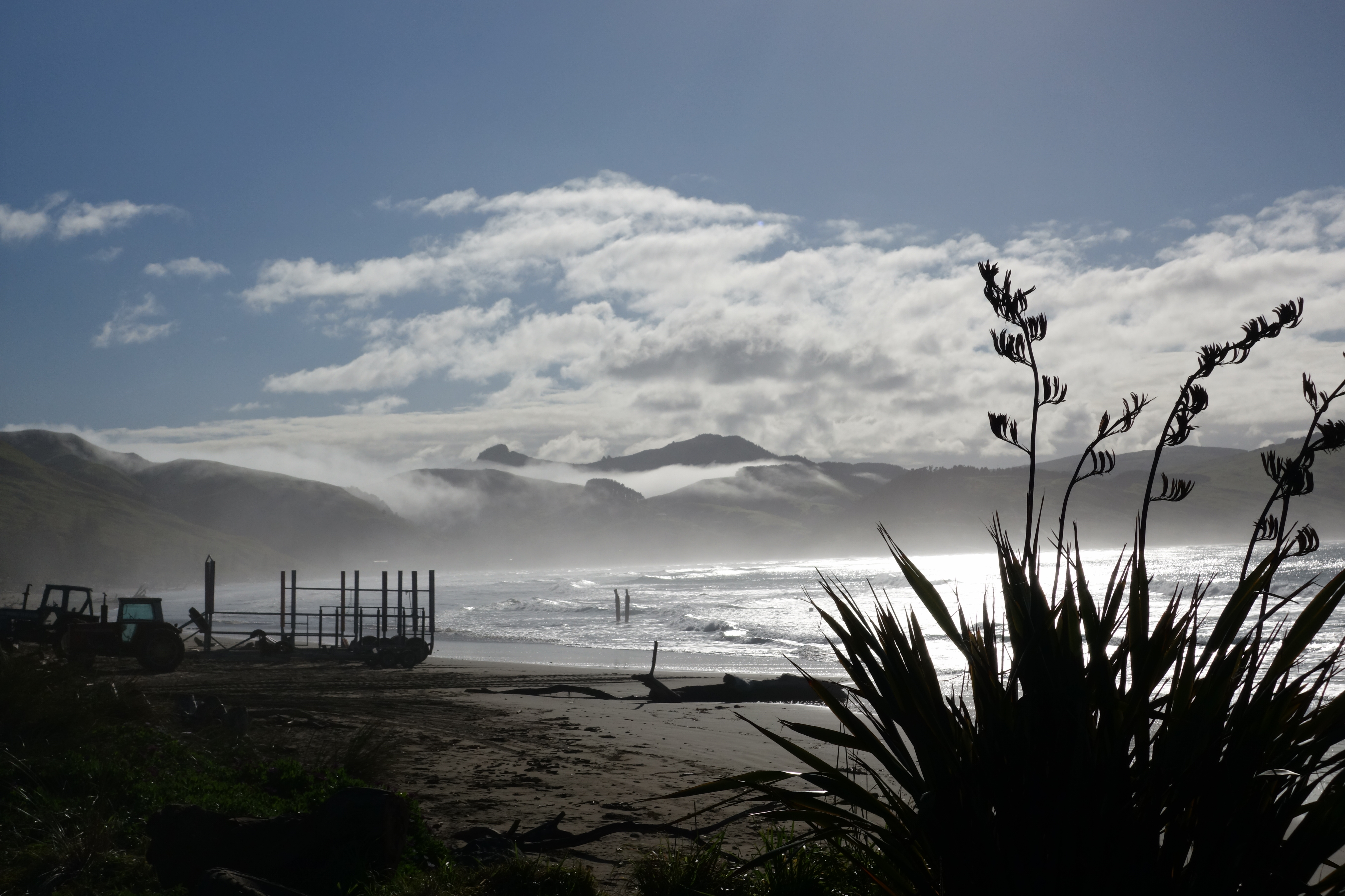 Akitio beach — on the left are tractors and trailers used to launch fishing boats; the uprights in the centre are the remains of a jetty